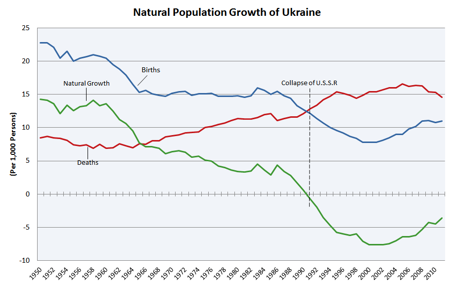 Natural population growth of Ukraine since 1950. Data source: Demoscope death rates, Demoscope birth rates, State Statistics Committee of Ukraine